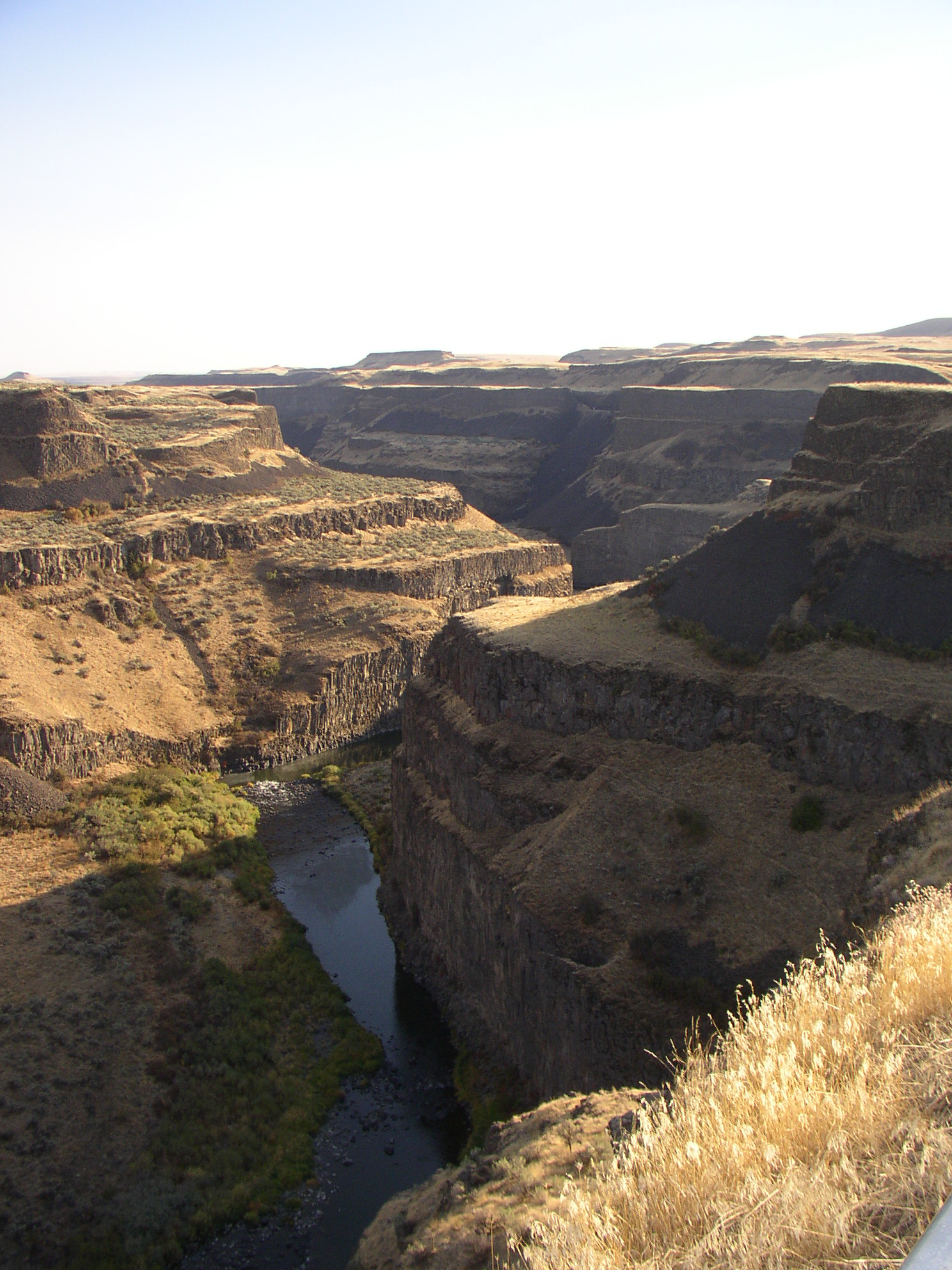 The Palouse Canyon downstream of Palouse Falls on the Palouse River in southeastern Washington State, USA. Taken late September or early October, 2006 by uploader. All rights released. Williamborg 18:56, 15 October 2006 (UTC)